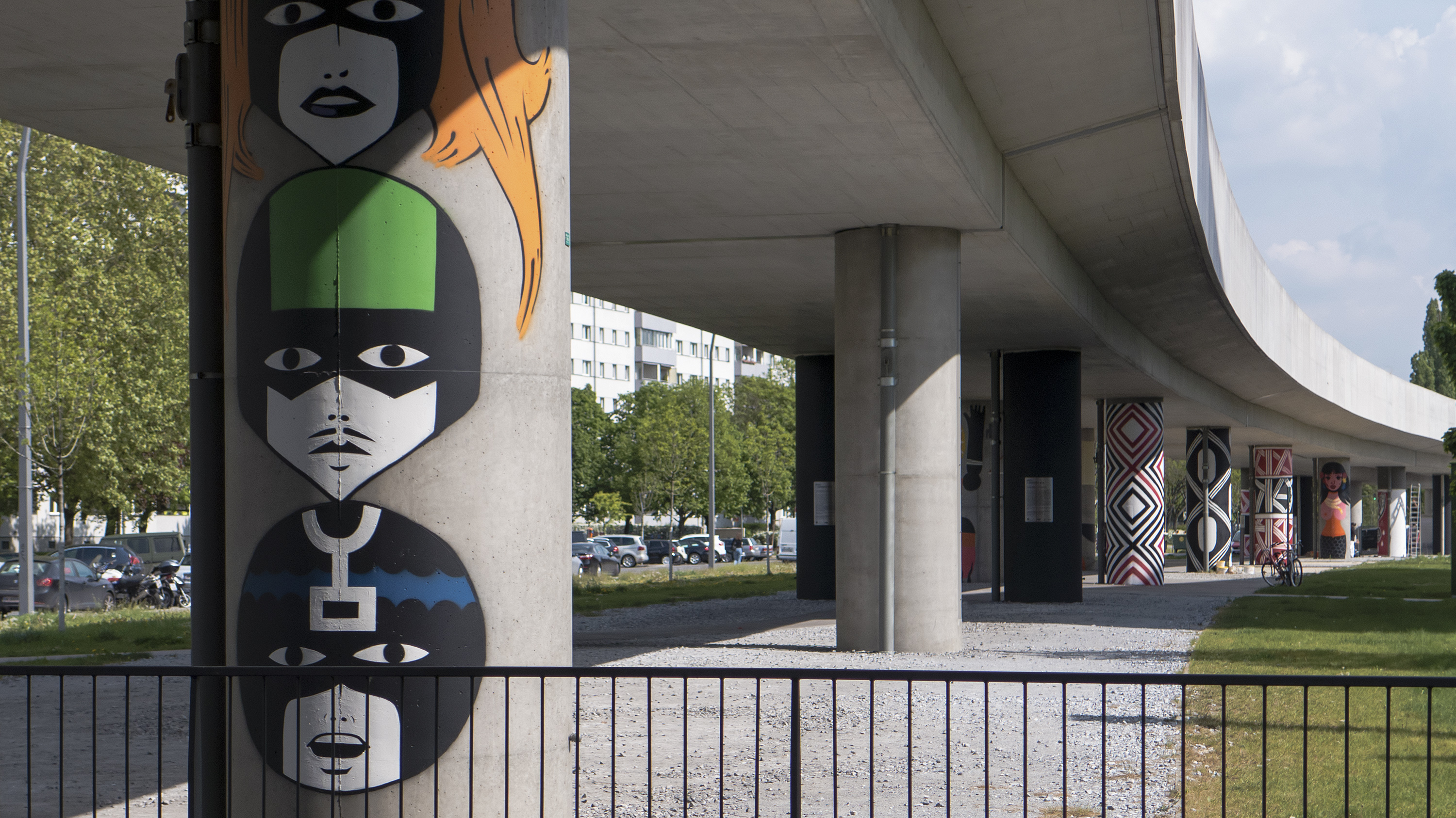 Underground station Krieau in Vienna 2